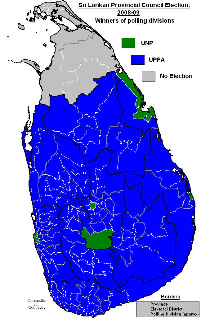 Map showing winners of polling divisions in the Sri Lankan provincial council election of 2008-09.